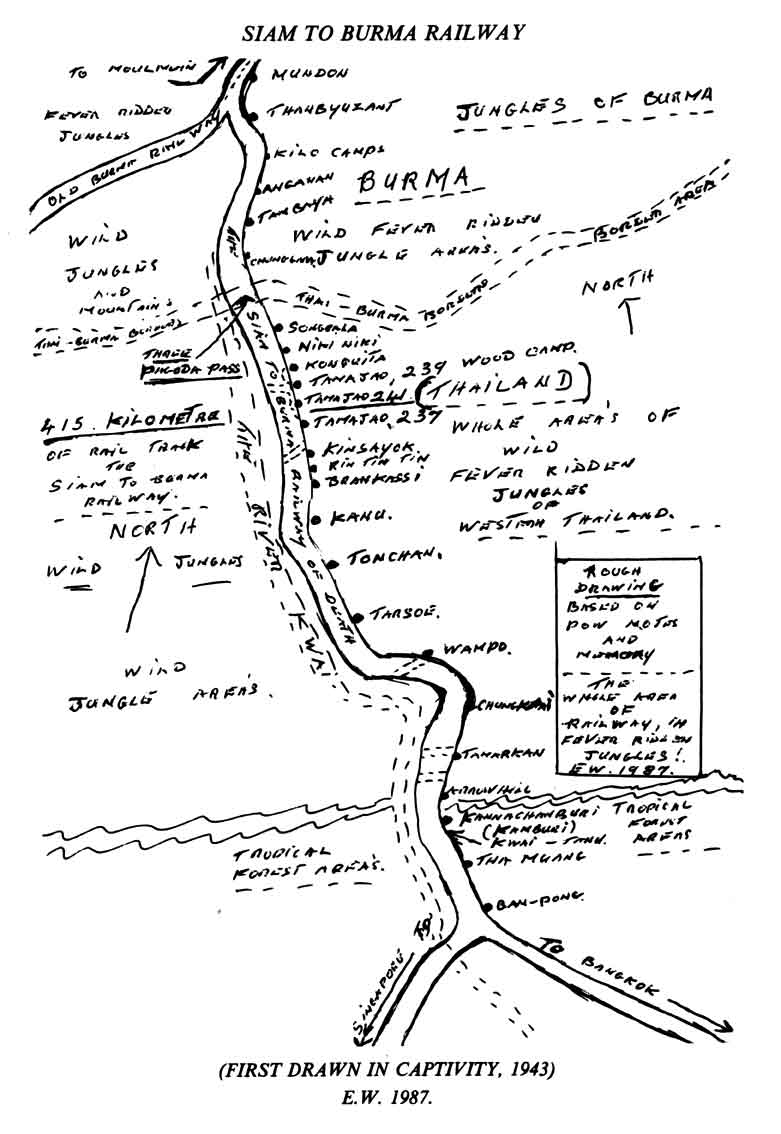 Map of POW camps along the Siam to Burma railway during WW2